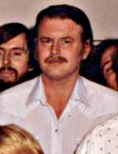 John Swartzwelder in 1992. Cropped from Image:Simpsons writers2.jpg